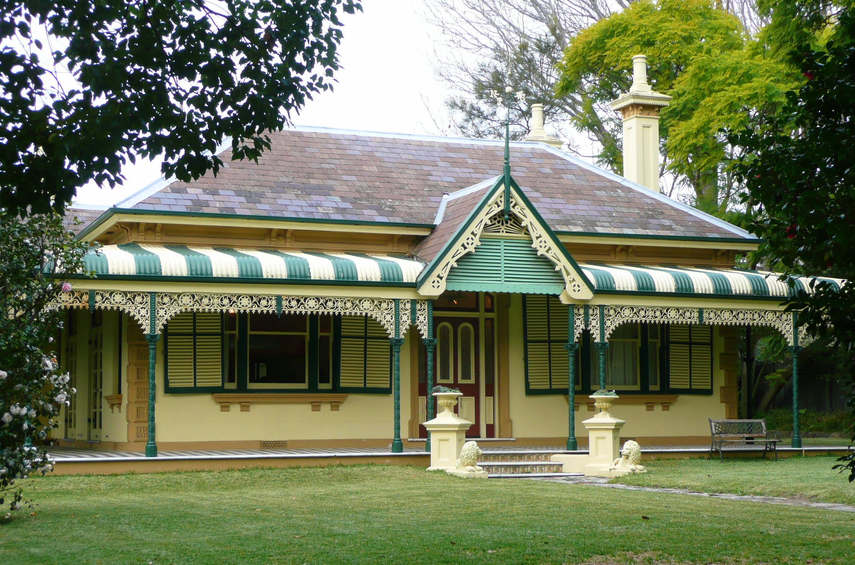 Laurelbank, Willoughby, Sydney (Image has been modified by User:Sardaka by lightening and increasing saturation, 2020-4-12)